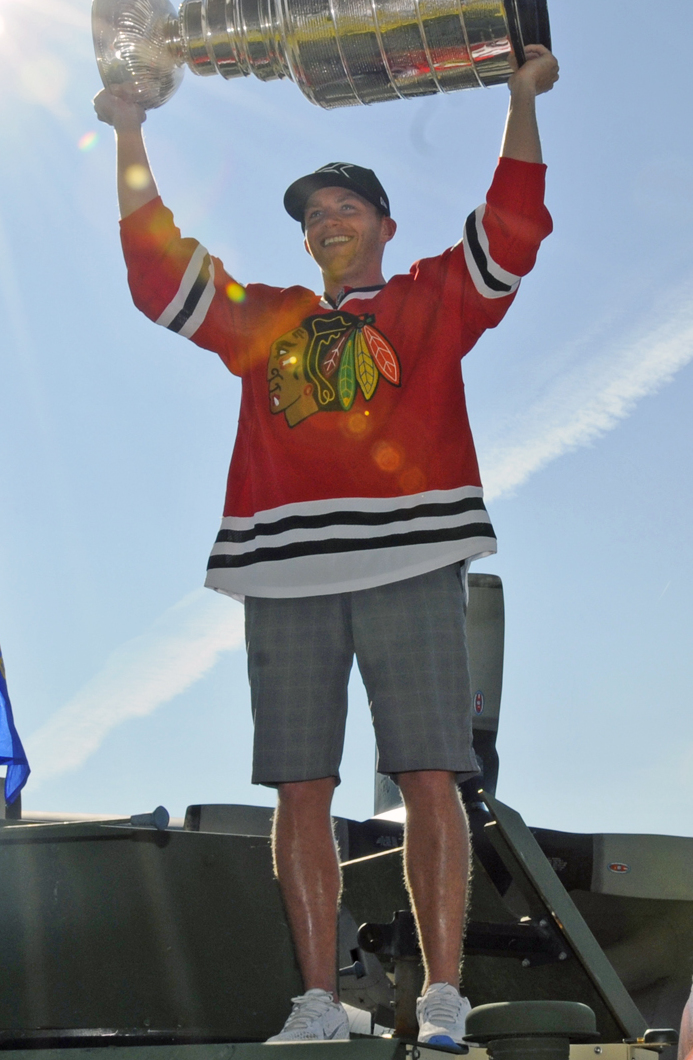 National Hockey League Chicago Blackhawks forward and south Buffalo native Pat Kane holds the Stanley Cup above his head during a visit Aug. 24, 2013, to Niagara Falls Air Reserve Station, N.Y. Base personnel had the opportunity to view the Stanley Cup and Conn Smythe Trophy during Kane’s visit. (U.S. Air Force photo/Tech. Sgt. Joseph McKee)